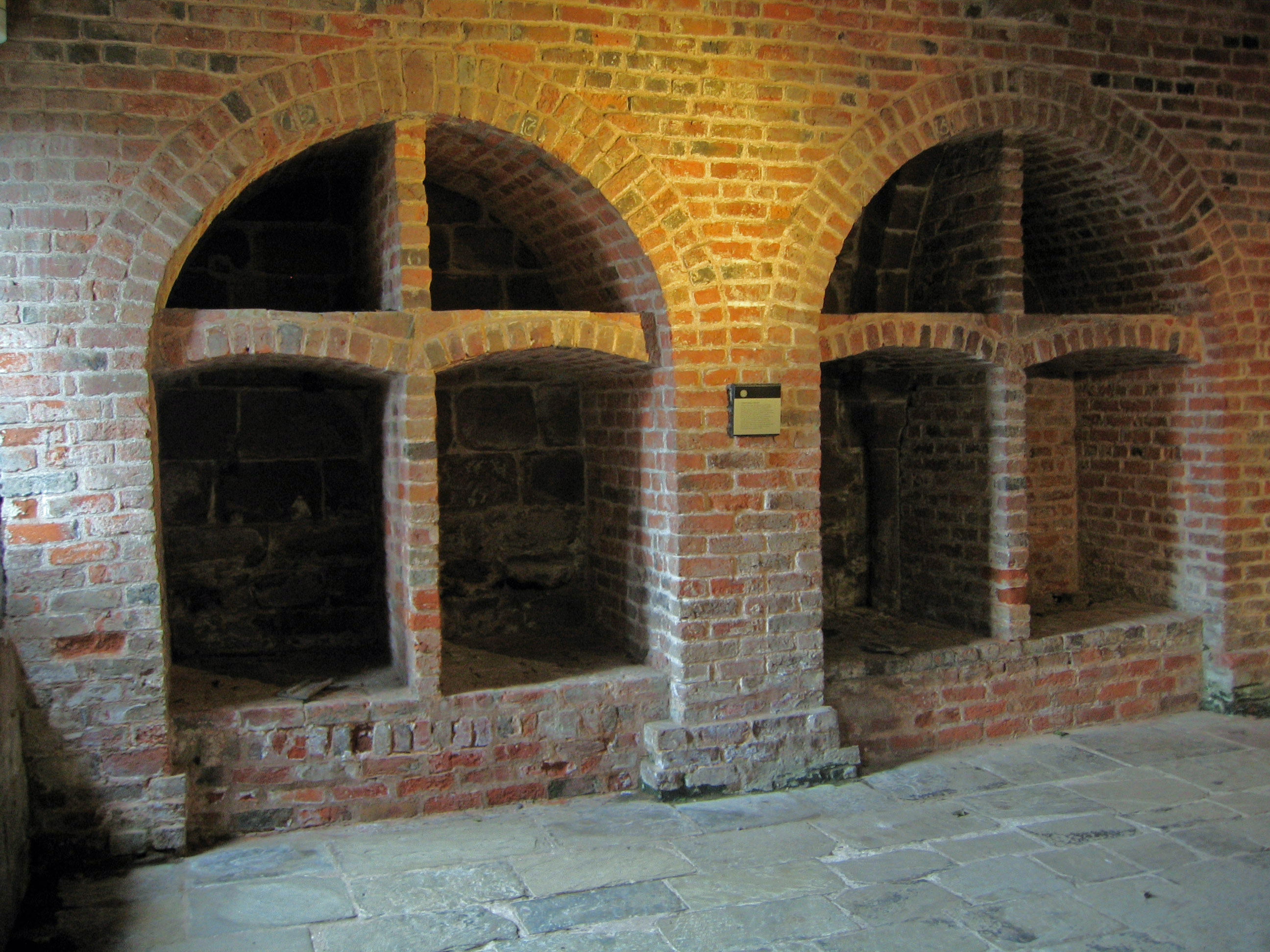 Photograph of wine bins in the undercroft of Norton Priory, near Runcorn, Cheshire, England.